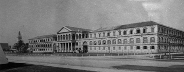 The Ministry of Defence building in Bangkok, late-19th or early-20th century